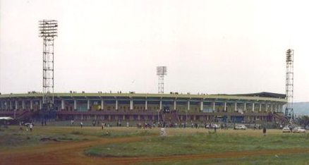 View of Amahoro Stadium in Kigali, Rwanda prior to Rwanda vs Namibia World Cup qualifier football match